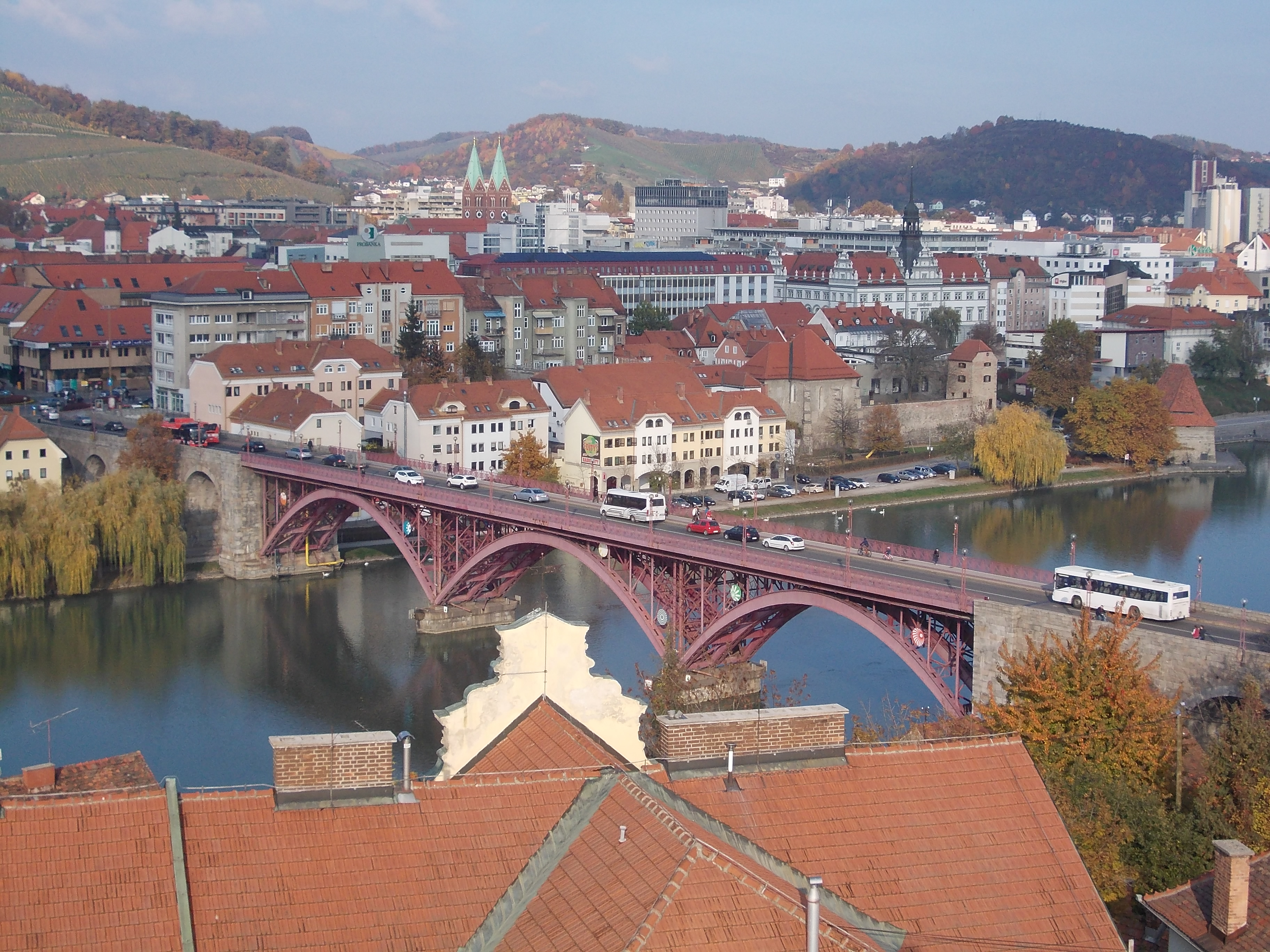 Maribor